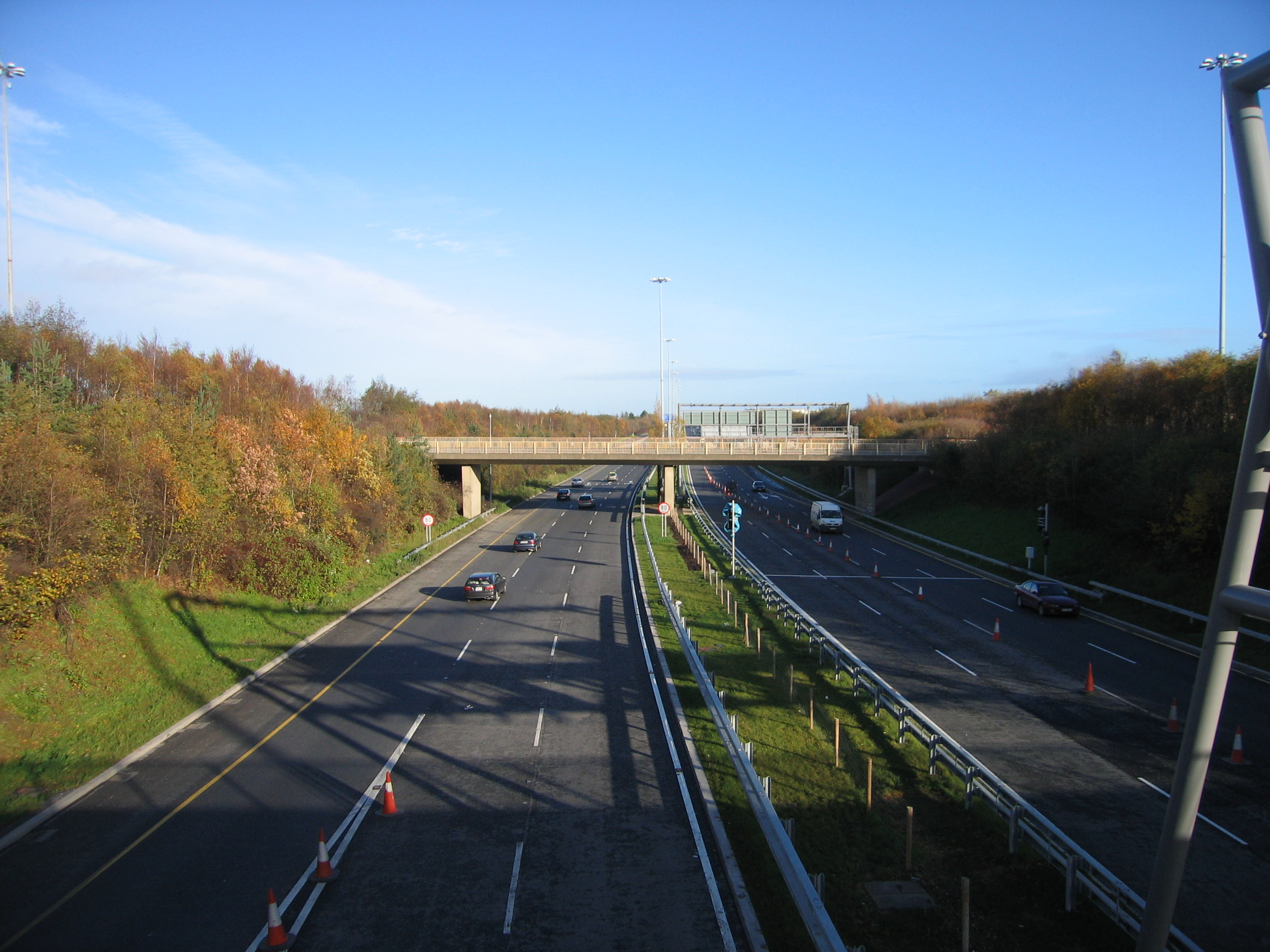 M50 northbound at Santry; cars from Whitehall on the N1 in left lane, trucks from tunnel (M50) emerging in middle lane. (This is Junction 1 of the M50). Trucks following M50 must get into left lane and cars continuing north on the M1 must cross into middle lane. This is a familiar maneuver, at least on the M50, for traffic crossing at ramps on/off the mainline motorway between 2 close junctions - it is unique for two of the most heavily trafficked National Primary Routes in the country. To complicate matters, just beyond the bridge in the picture there is a ramp joining the mainline (Junction 2) a few hundred meters before the M50/M1 Junction (J3)!